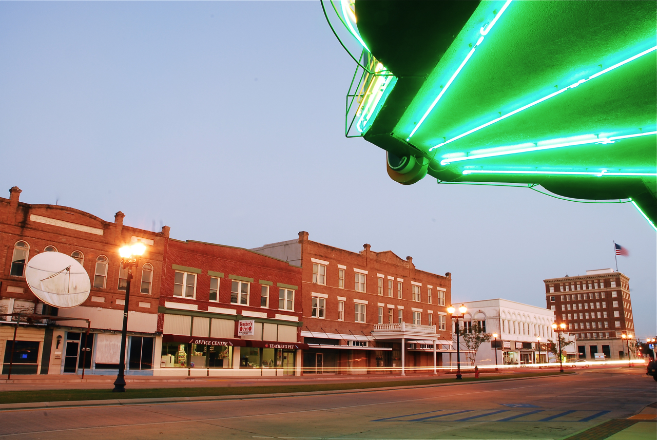 Patterson Avenue, Crowley Louisiana Historic District, in Oct 2011